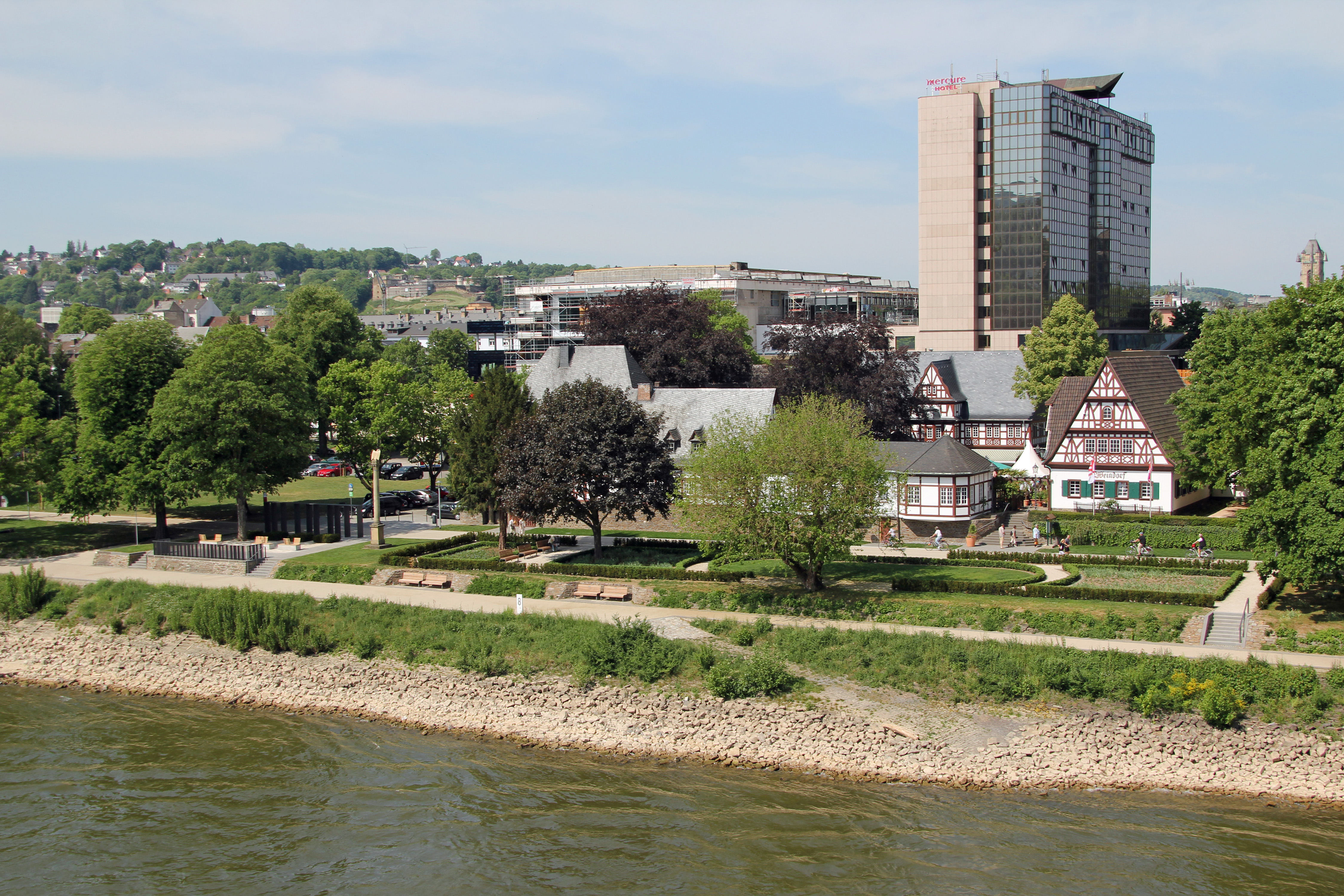 Rhine park in Koblenz